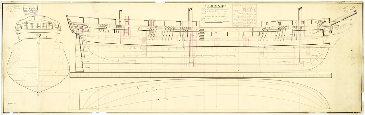 CLORINDE FL.1803 [FRENCH] lines & profile